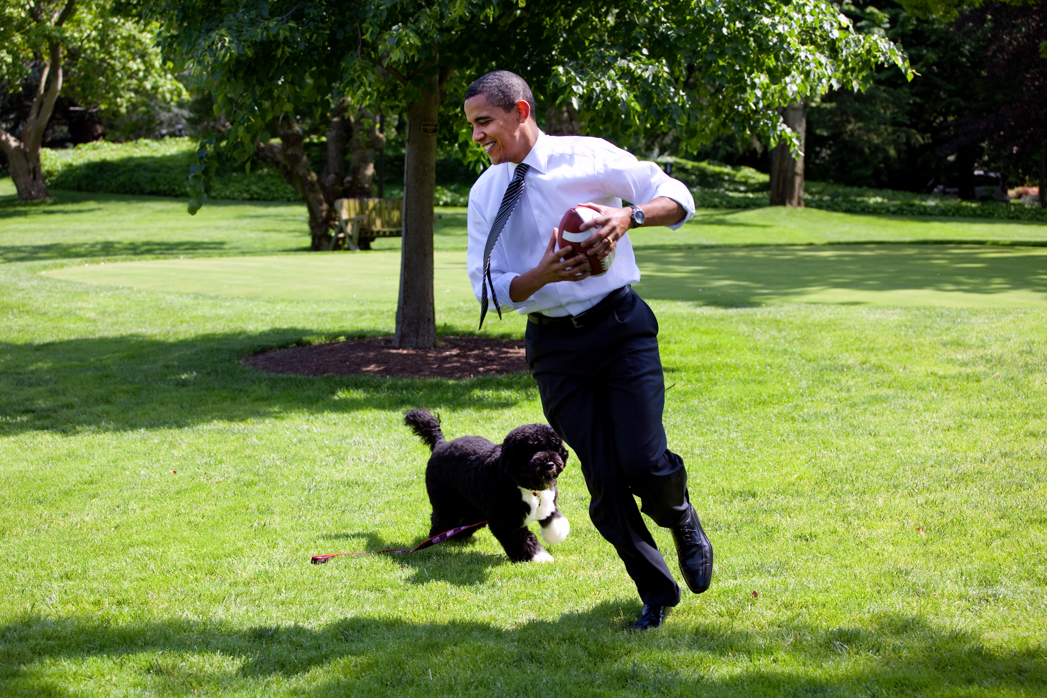 President Barack Obama, runs away from the family dog, Bo, during a brief break from meetings on the South Lawn of the White House May 12, 2009.